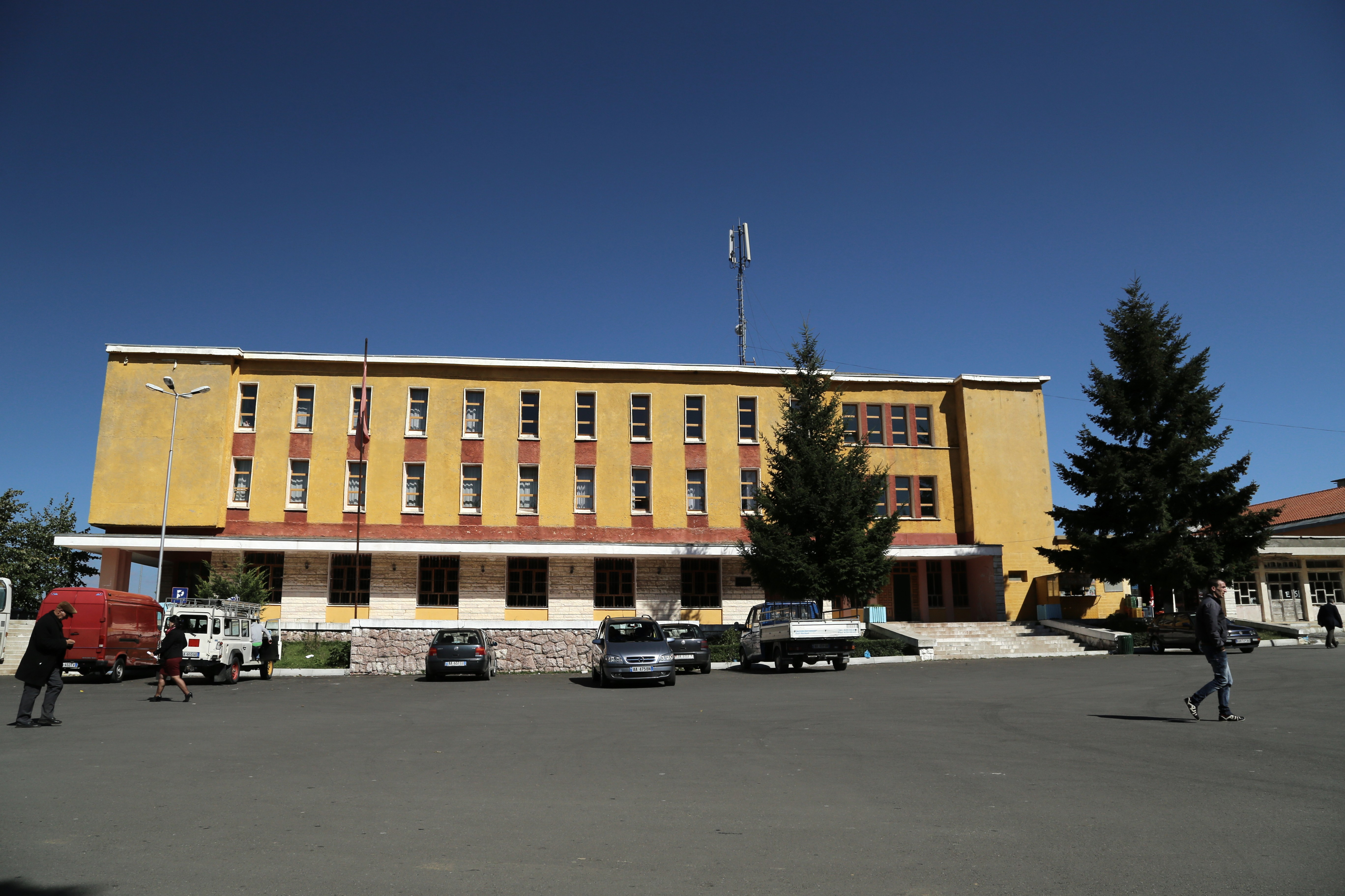 Pukë in Albania